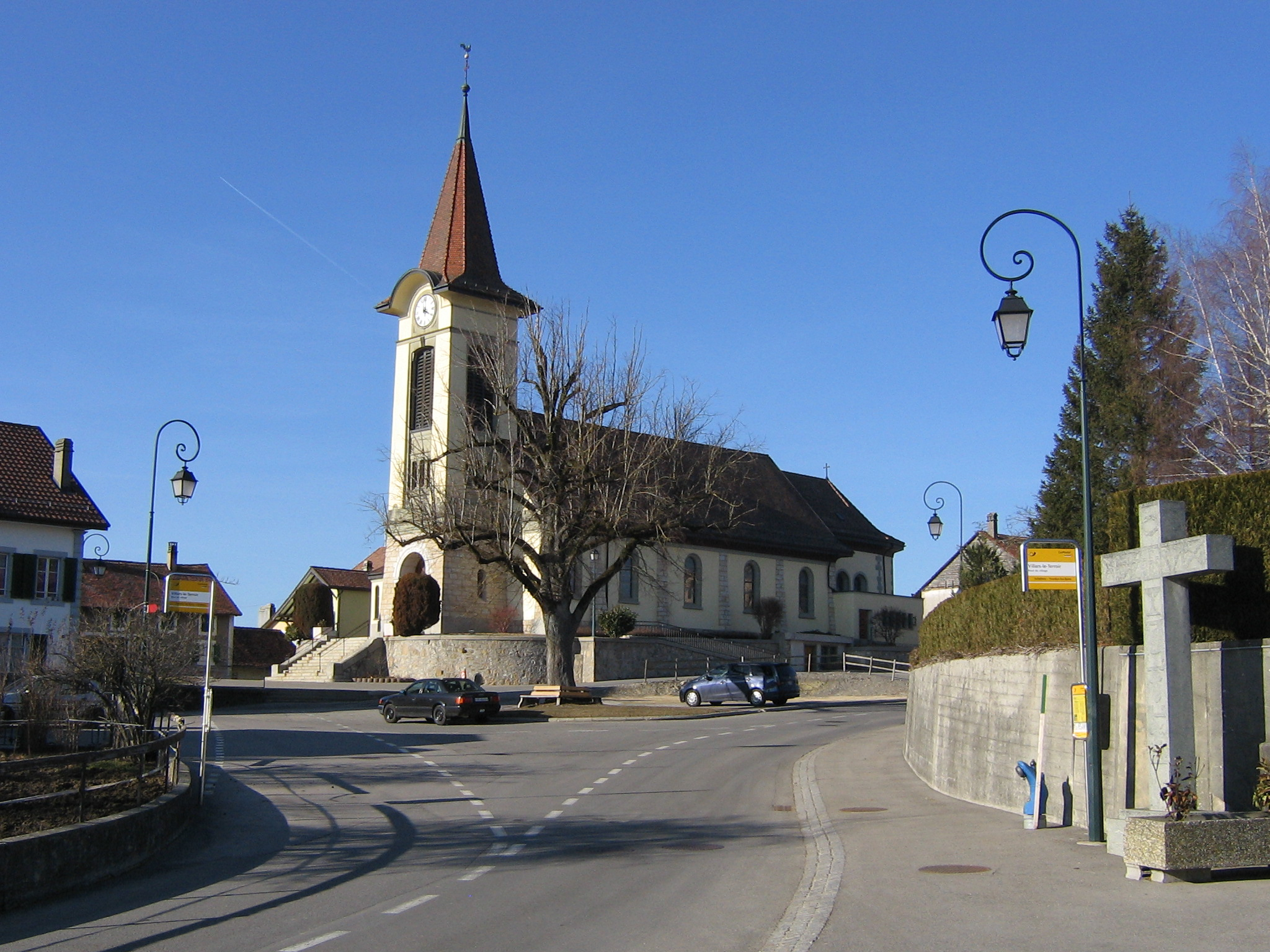 Church of Villars-le-Terroir, Vaud, Switzerland.